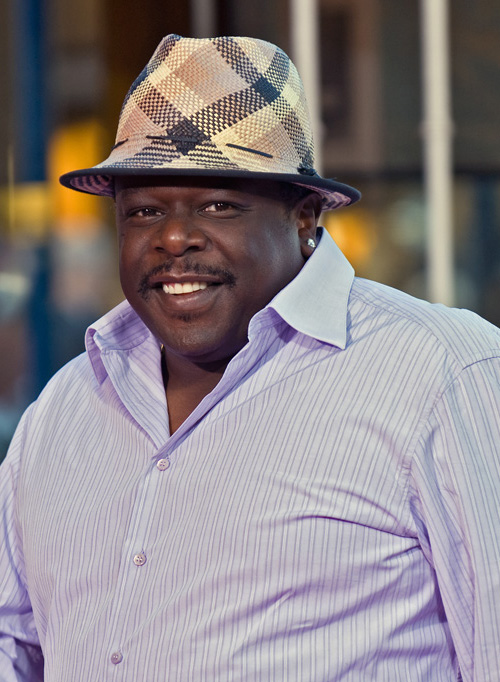 Cedric the Entertainer at the Get Smart film premiere at the Fox Theater in Westwood, California.